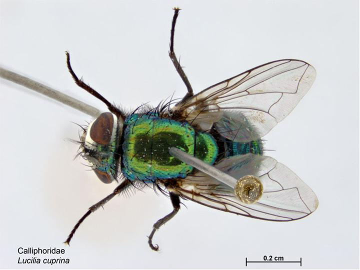 Lucilia cuprina, Dorsal - Adult : Diagnostic Notes : Abdomen integument metallic green. Fore femur metallic green. Thoracic squama bare. Wings hyaline; stem vien bare; basicosta yellow; subcostal sclerite pubescent. Suprasquamal ridge with posterior parasquamal tuft. Supraspiracular convexity pubescent. Postocular microtrichial pile (minute hairs) on vertex directed transversely, smooth, with a sharp boundary where pile changes direction. Humerus with 2-4 hairs. Quadrant between anterior margin and discal setae with 15-25 setulae. Male : Hairs on abdominal sternites much longer than on hind femur and tibia.